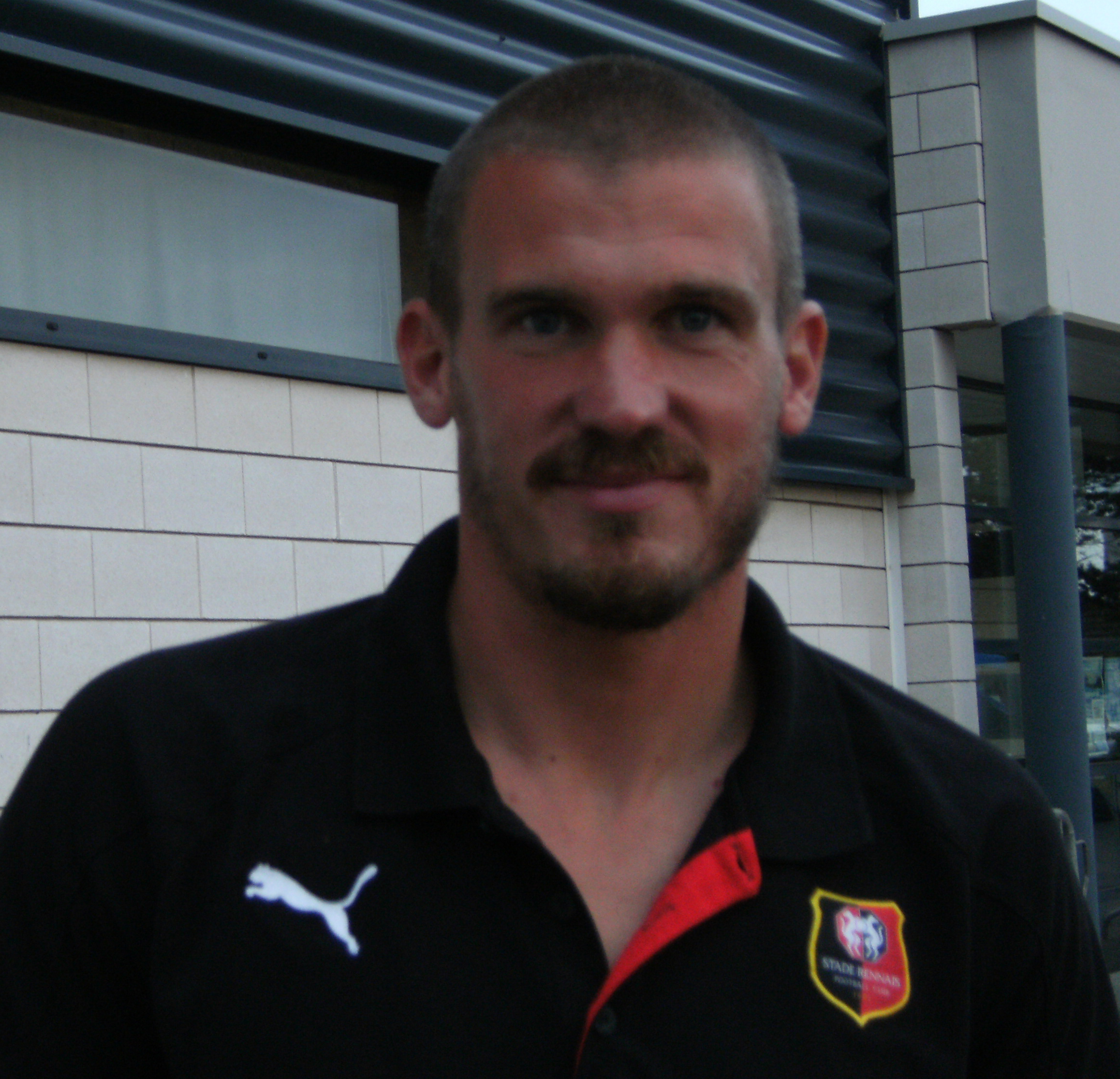 Nicolas Douchez after a friendly game between Stade rennais FC and Stade Malherbe de Caen in Ouistreham